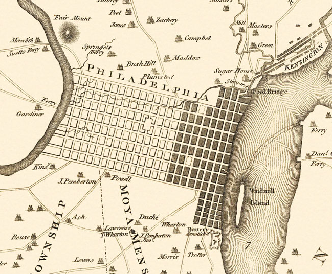 Plan of the City and Environs of Philadelphia (detail)